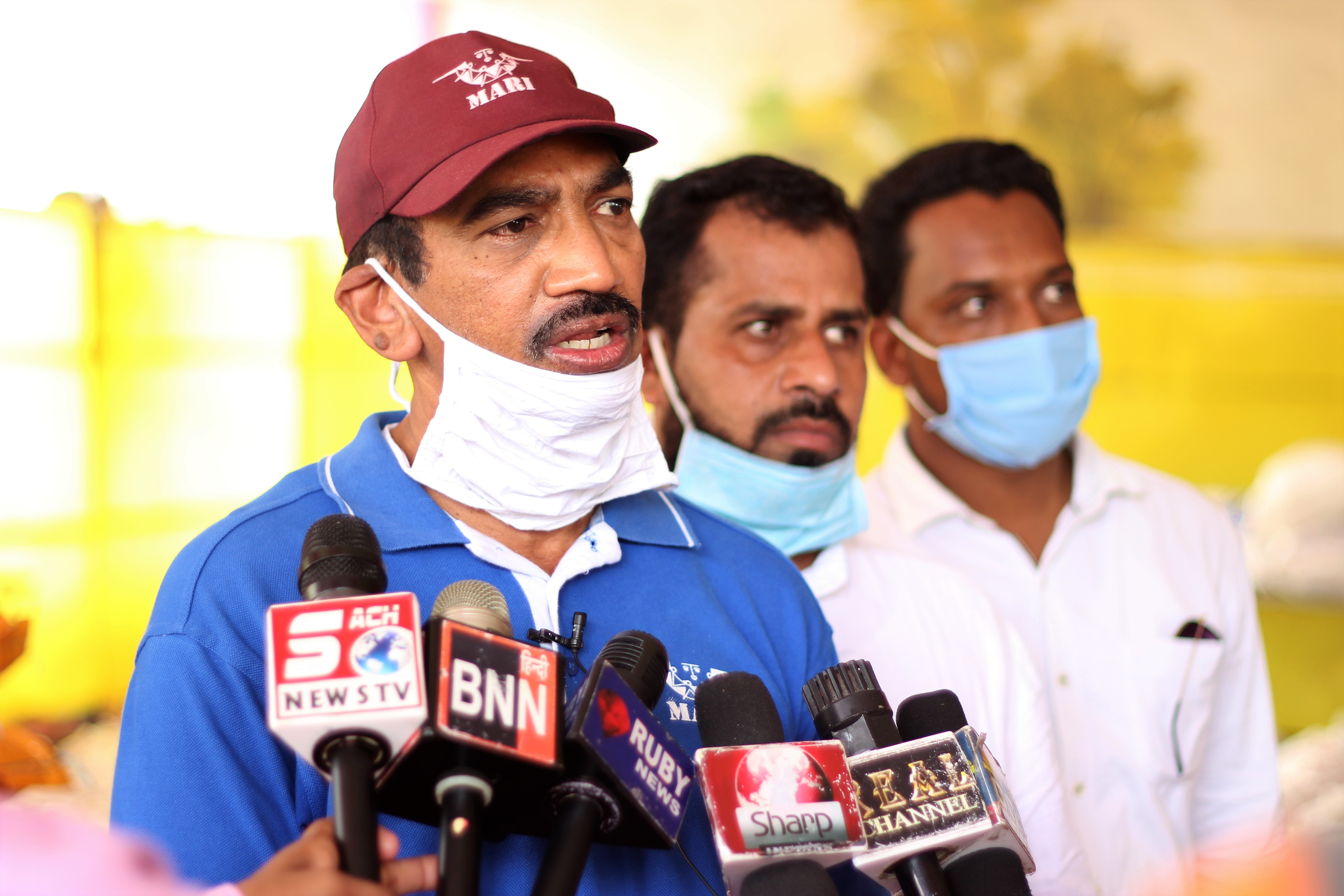 MARI COVID-19 relief distribution